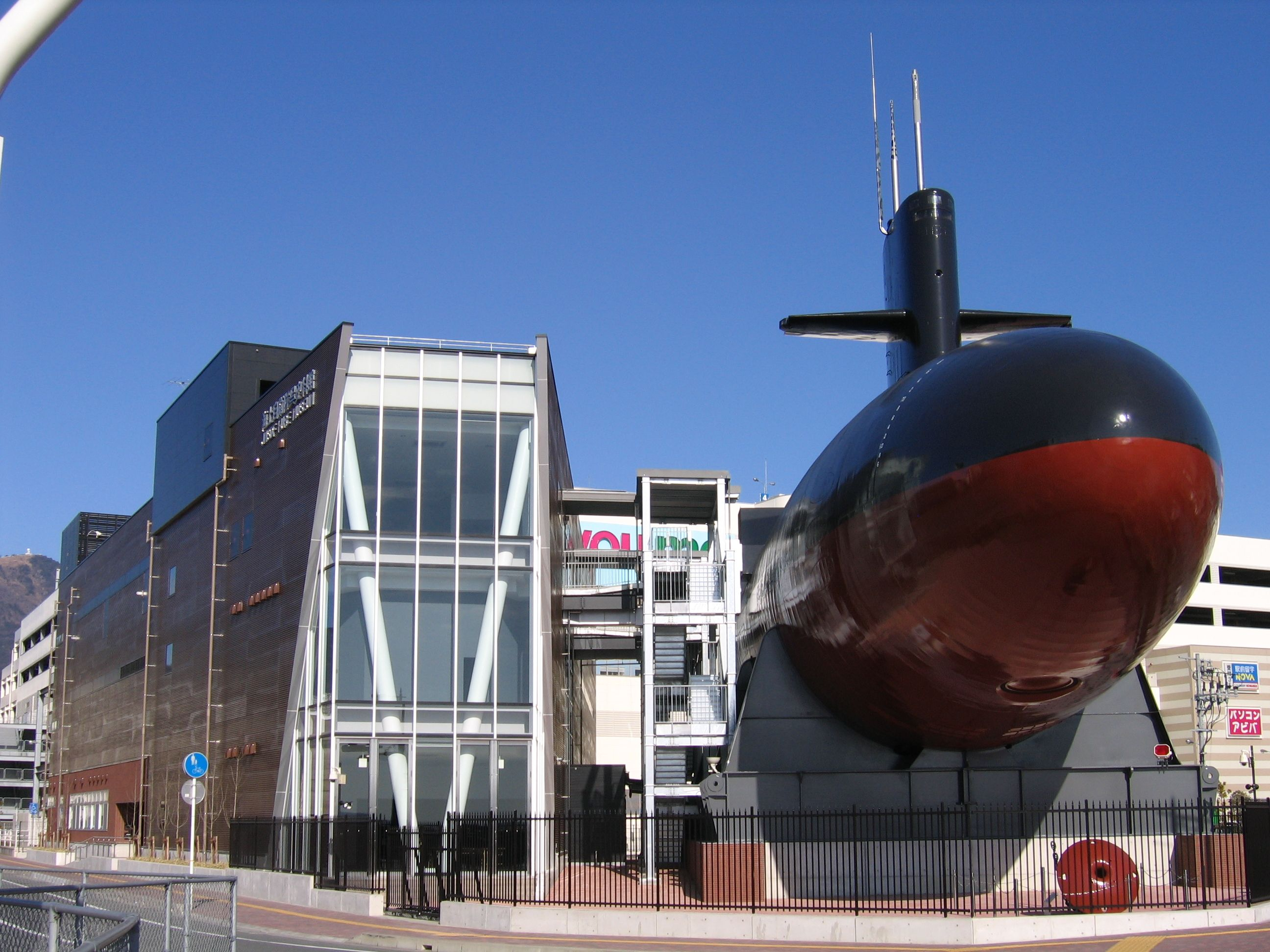 photographed in Kure-City, Hiroshima Pref.,Japan on March 6, 2007.